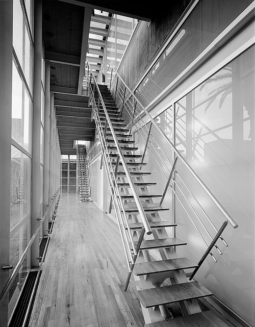 National School of Dance, luisvicenteflores, Mexico City, 1996